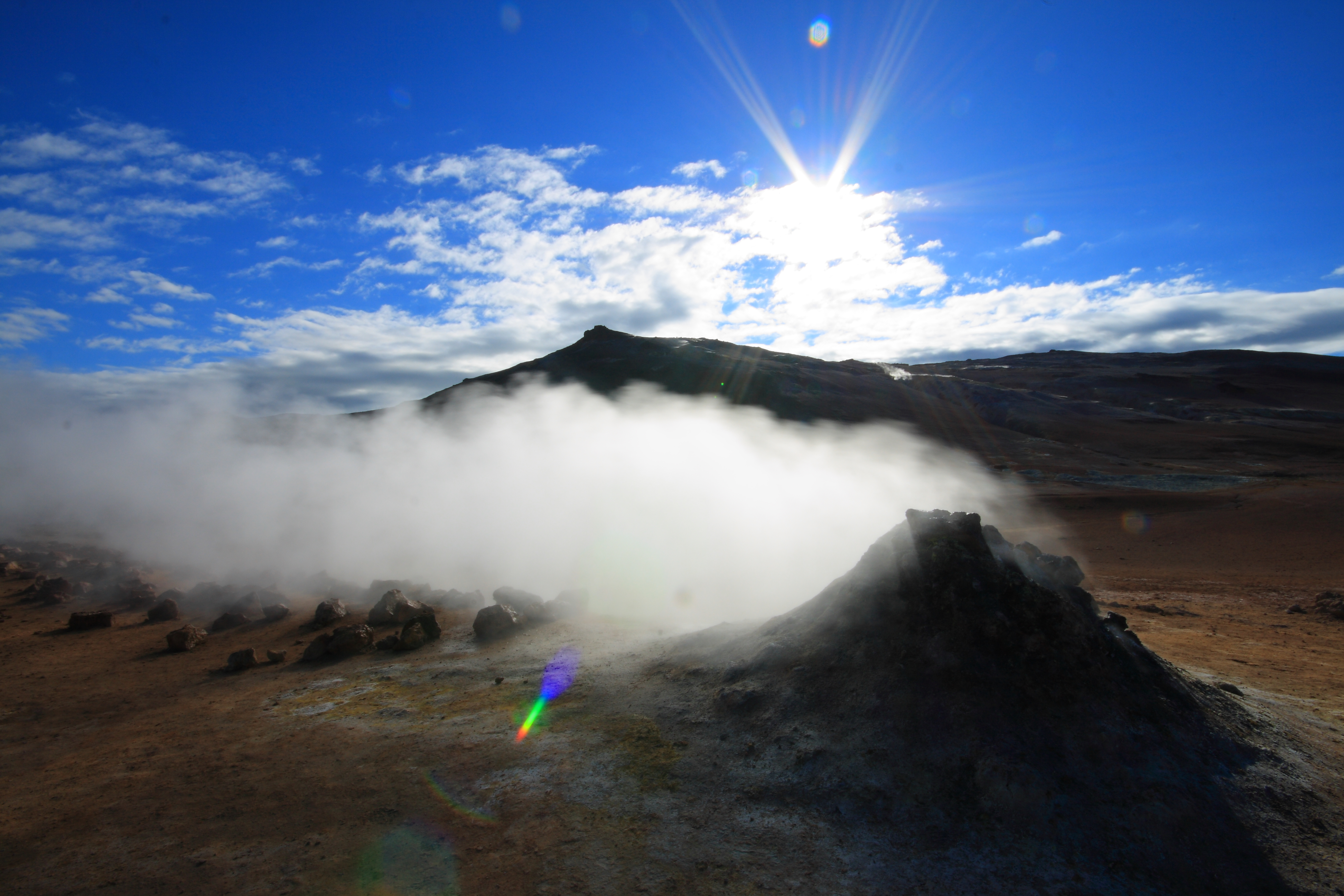 Fumerole at Námafjall, Lake Myvatn, Iceland